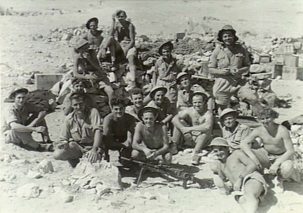 Soldiers from the 2/10th Australian Infantry Battalion, April 1941